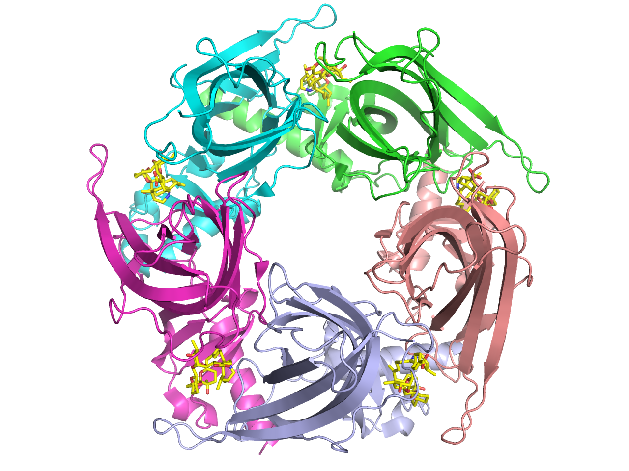 Crystal structure of the Aplysia californica acetylcholine-binding protein pentamer in complex with pinnatoxin A (yellow). The protein chains are shown in different colors to highlight the position of the pinnatoxin at the inter-subunit interfaces. Pinnatoxins are macrocyclic molecules which were discovered in shellfish and are produced by dinoflagellates. They are highly toxic due to their interactions with nicotinic acetylcholine receptors, for which the Aplysia californica acetylcholine-binding protein is a model. Image rendered using PyMOL from PDB ID 4XHE. Marine Macrocyclic Imines, Pinnatoxins A and G: Structural Determinants and Functional Properties to Distinguish Neuronal alpha 7 from Muscle alpha 12 beta gamma delta nAChRs. Bourne, Y., Sulzenbacher, G., Radic, Z., Araoz, R., Reynaud, M., Benoit, E., Zakarian, A., Servent, D., Molgo, J., Taylor, P., Marchot, P. (2015) Structure 23: 1106-1115 PubMed: 26004441